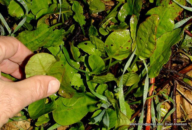 نباتات برّية سورية تؤكل